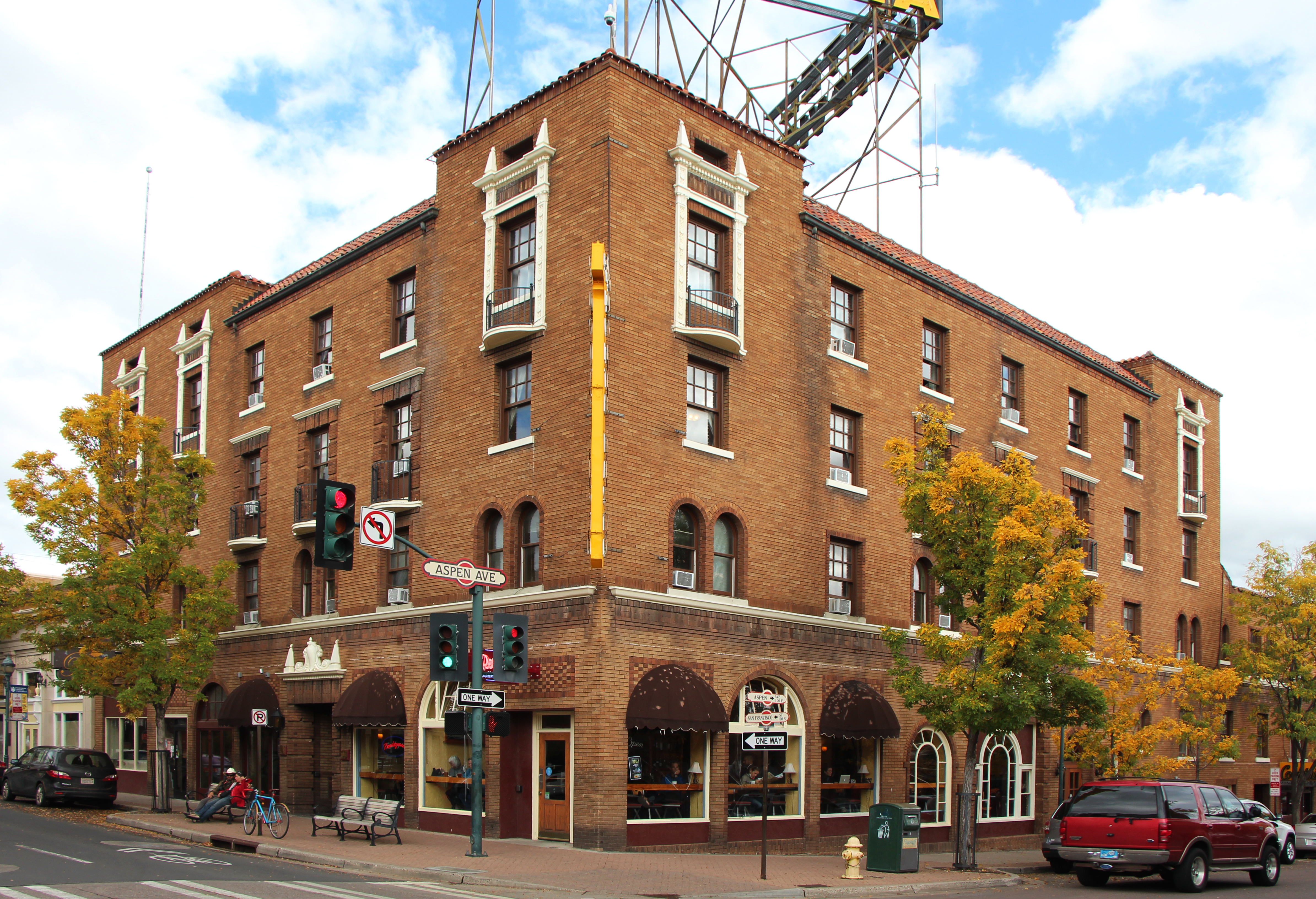 Monte Vista Hotel, 100 N San Francisco St, Flagstaff, AZ